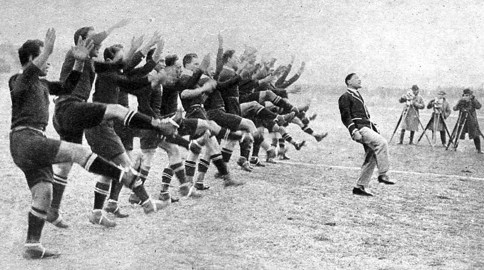 The Maori All Blacks performing their "haka" dance at Paris.